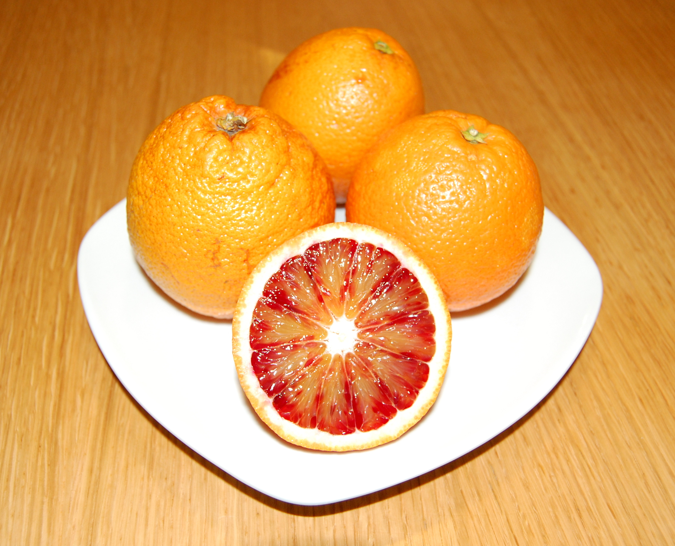 Blood Orange